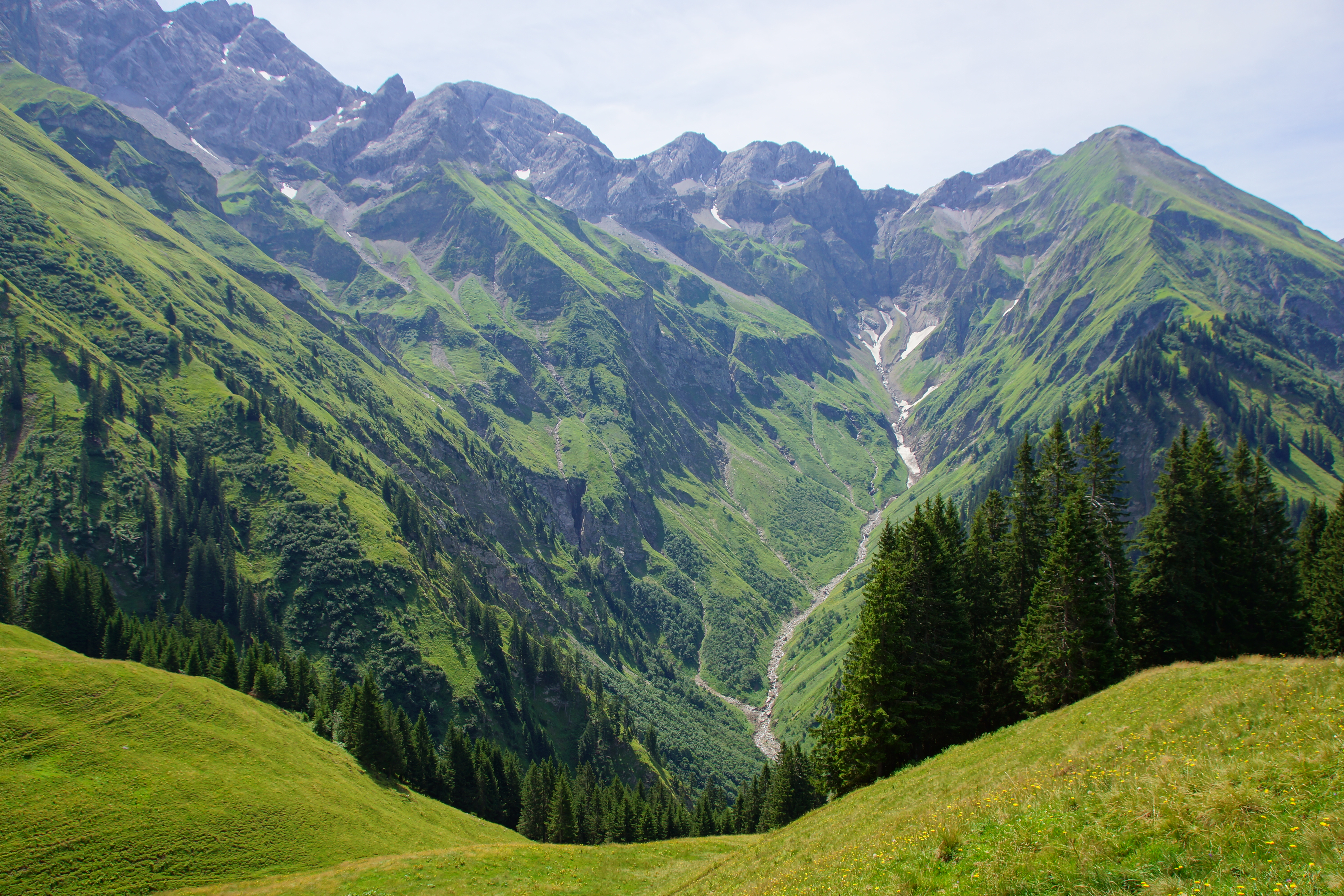 Upper Bacherloch from Einödsberg. To the right is the Linkerskopf.